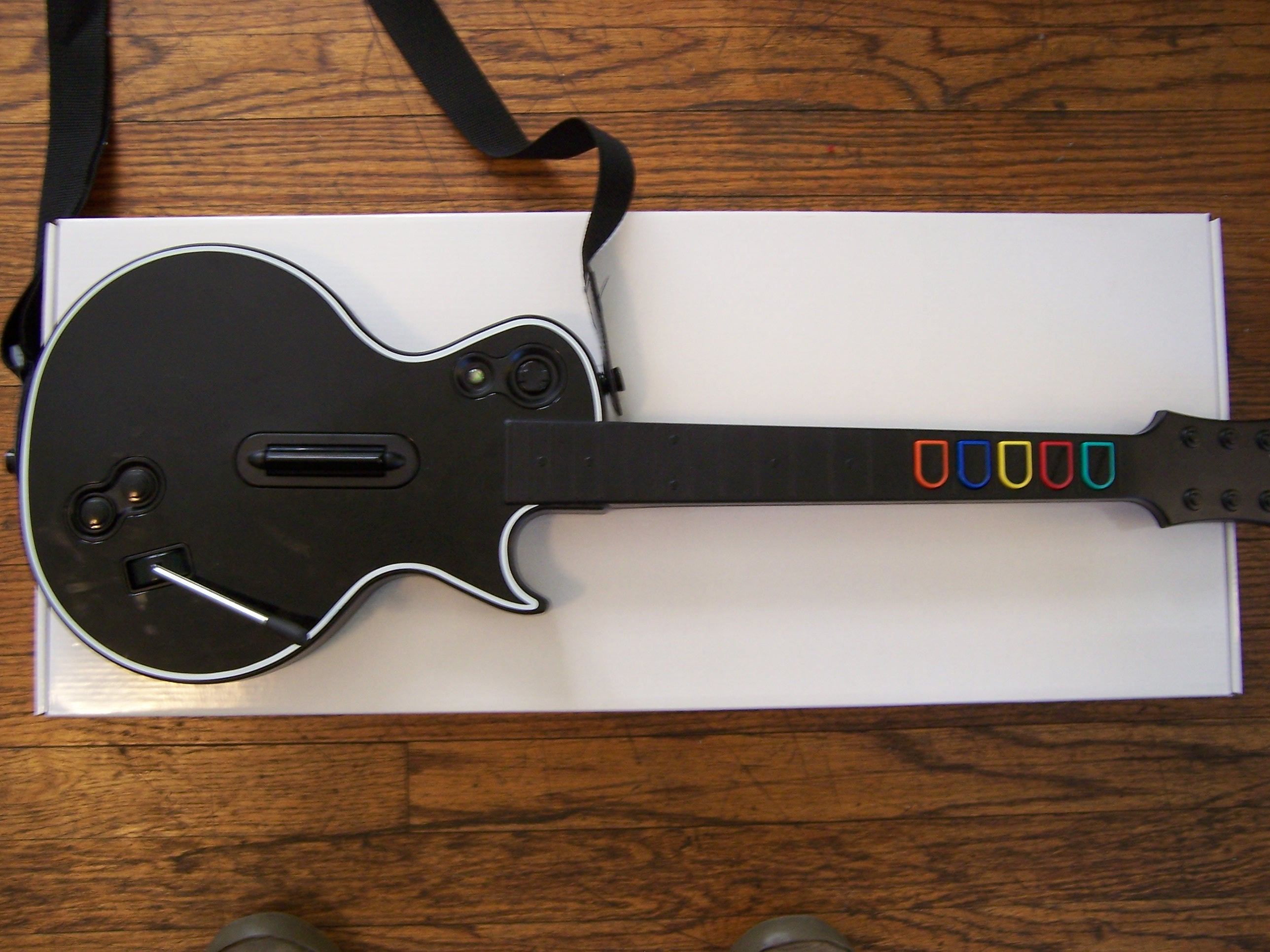 A photo of the Les Paul controller that comes with the Xbox 360 Version of Guitar Hero III.